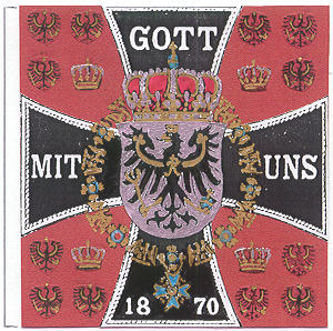 Royal standard of Prussia. Drawn by Theo van der Zalm